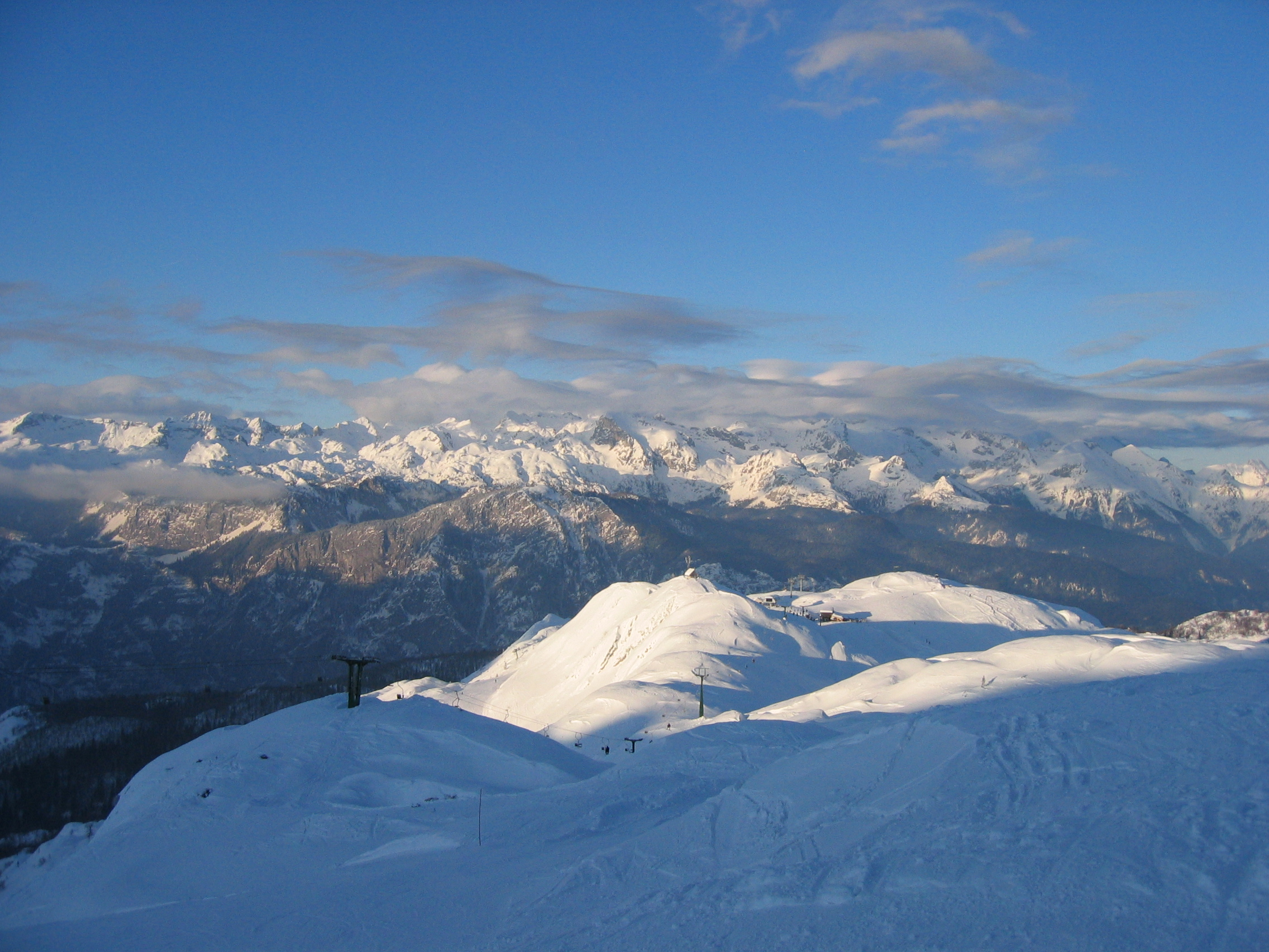 Vogel